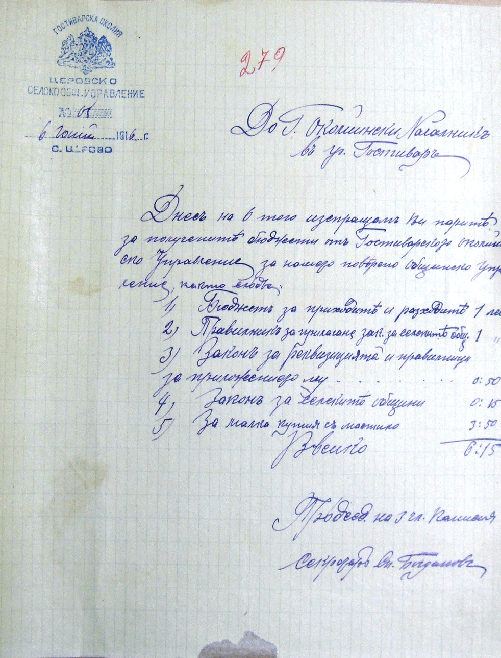 Document of May 6, 1916, stamped by Cerovo rural management, Gostivar area. This media file is produced by Wikipedian in Residence in Category:Wikipedian in Residence at DARM in 2016.